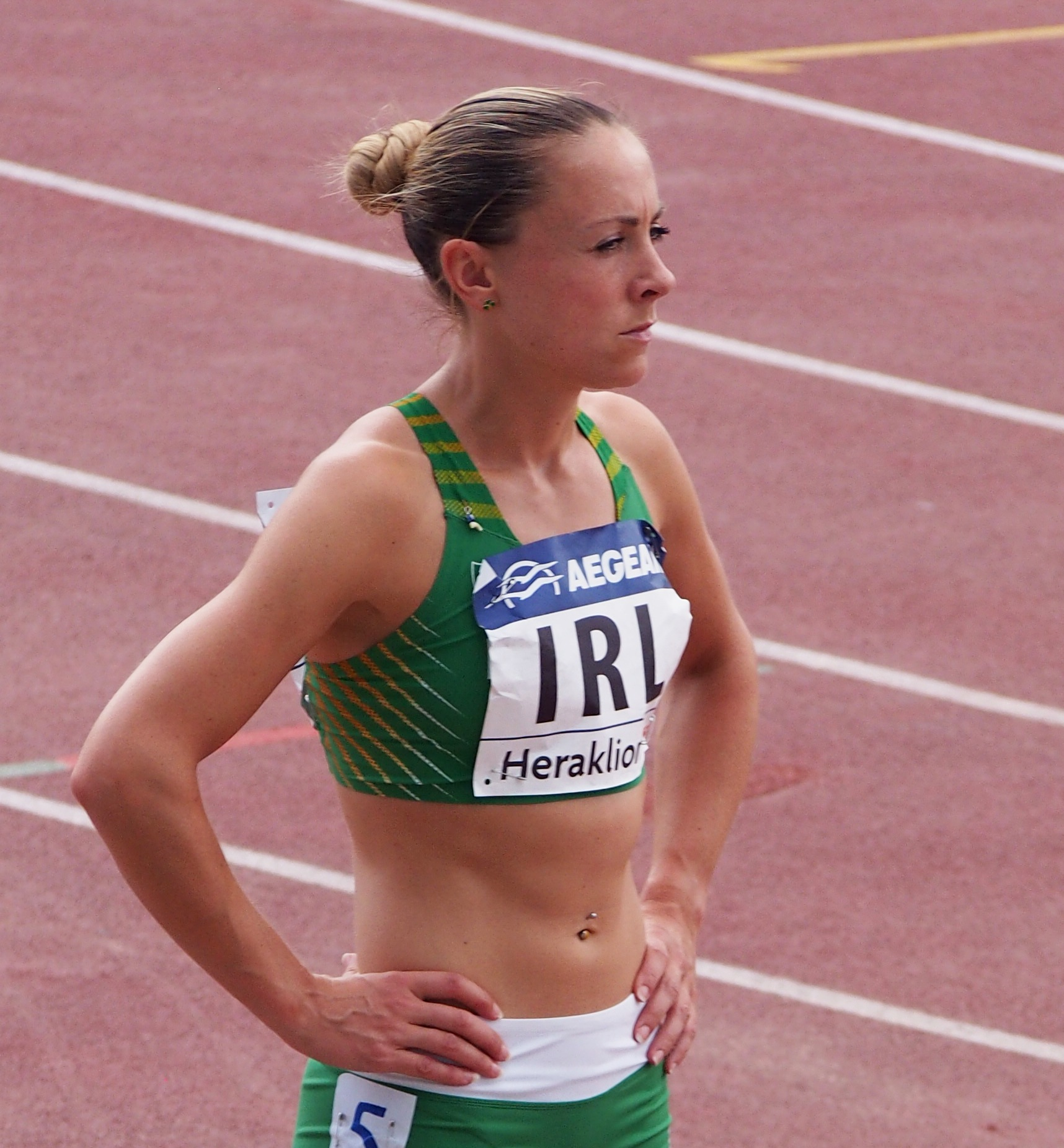 Kerry O'Flaherty before the start of the 1,500 m race at 2015 European Team Championships First League.